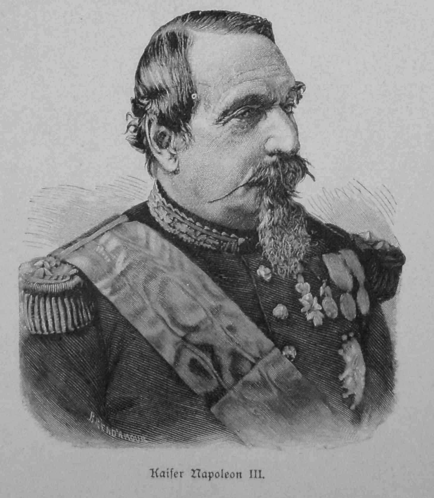 Emperor Napoeleon III.